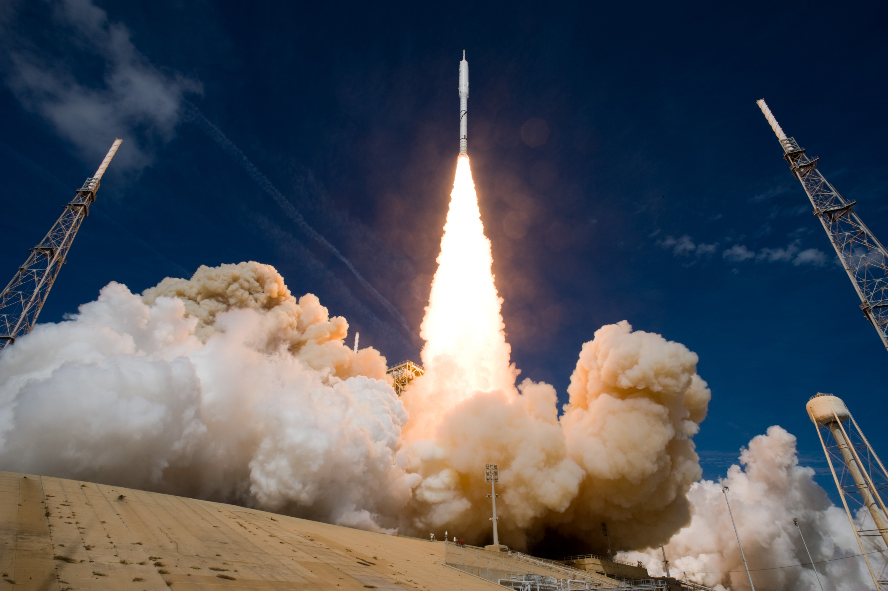 CAPE CANAVERAL, Fla. – Smoke engulfs Launch Pad 39B as the Ares I-X test rocket as it takes off from NASA's Kennedy Space Center in Florida at 11:30 a.m. EDT Oct. 28. NASA’s Constellation Program's 327-foot-tall rocket produces 2.96 million pounds of thrust at liftoff and reaches a speed of 100 mph in eight seconds. This was the first launch from Kennedy's pads of a vehicle other than the space shuttle since the Apollo Program's Saturn rockets were retired. The parts used to make the Ares I-X booster flew on 30 different shuttle missions ranging from STS-29 in 1989 to STS-106 in 2000. The data returned from more than 700 sensors throughout the rocket will be used to refine the design of future launch vehicles and bring NASA one step closer to reaching its exploration goals. For information on the Ares I-X vehicle and flight test, visit